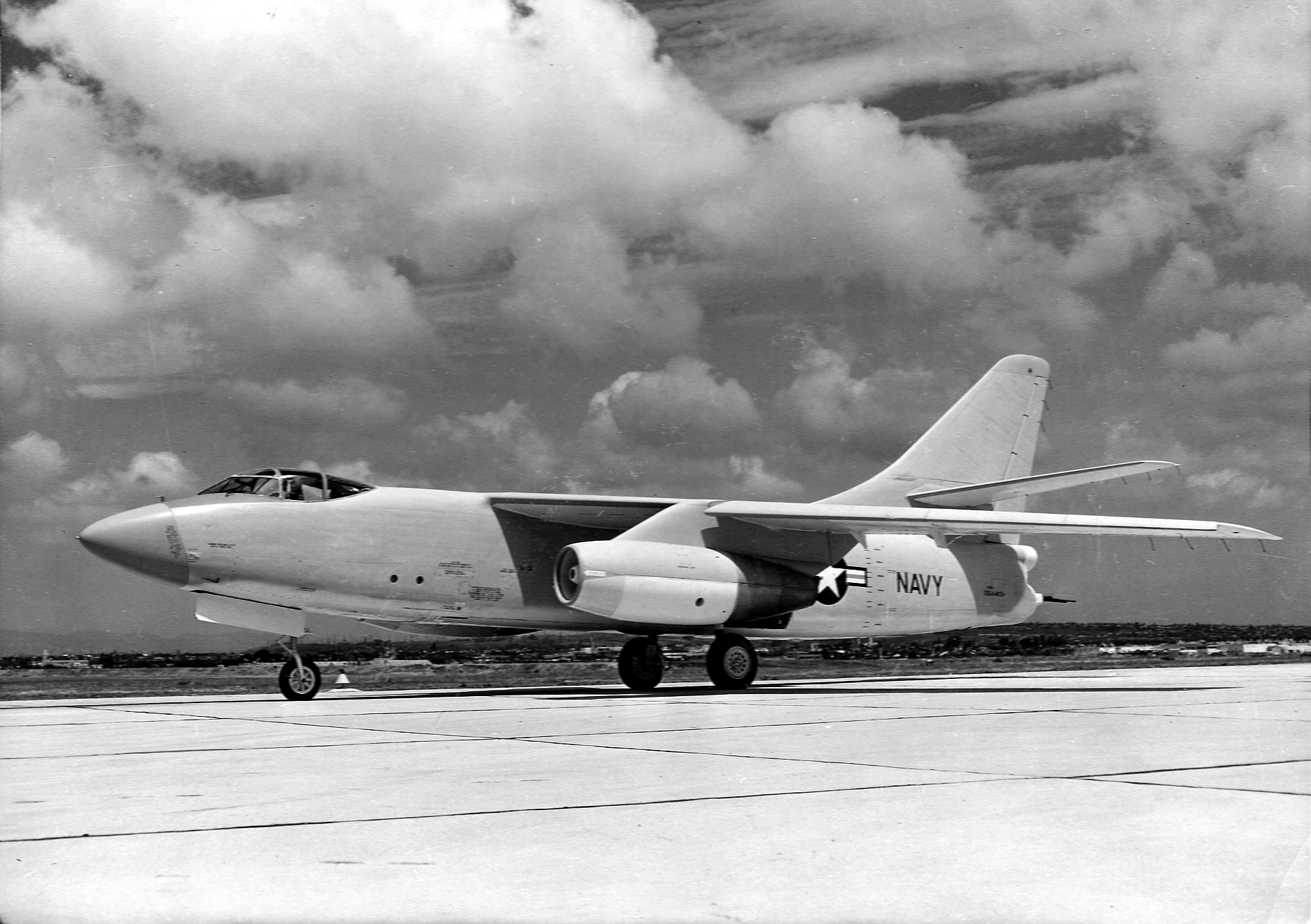 A U.S. Navy Douglas A3D-1 Skywarrior (BuNo 135440) parked at an unidentified airfield in 1956. This aircracft was lost in an accident in July 1959 while in service with Heavy Attack Squadron VAH-1.